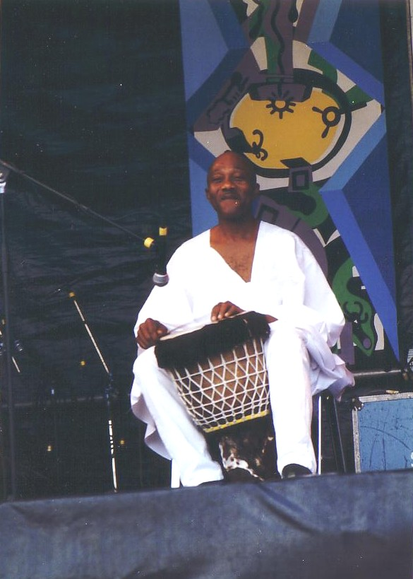 Kofi Ayivor opens the 1994 African Music Festival in Delft/ Holland